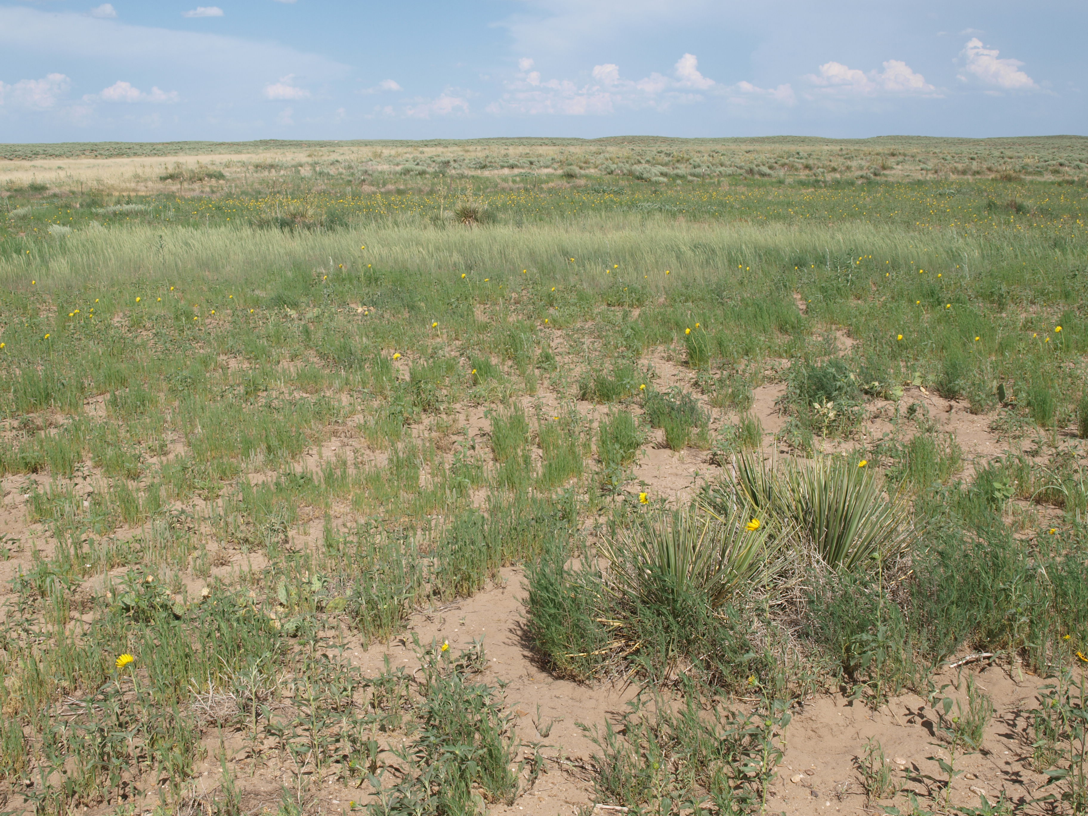 Typical plant communities on Cimarron National Grassland.